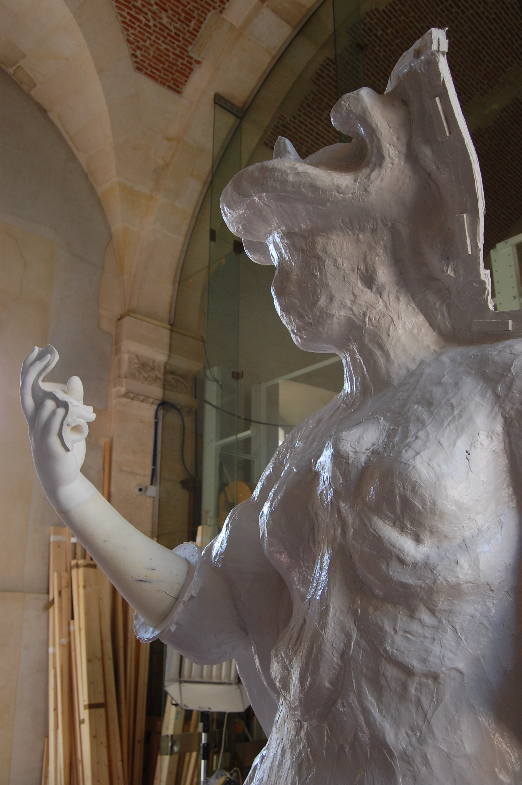 Molding in process for l'Afrique (Africa), sculpted by Sybraique and Cornu, in the statues' restoration workshop of the palace of Versailles.